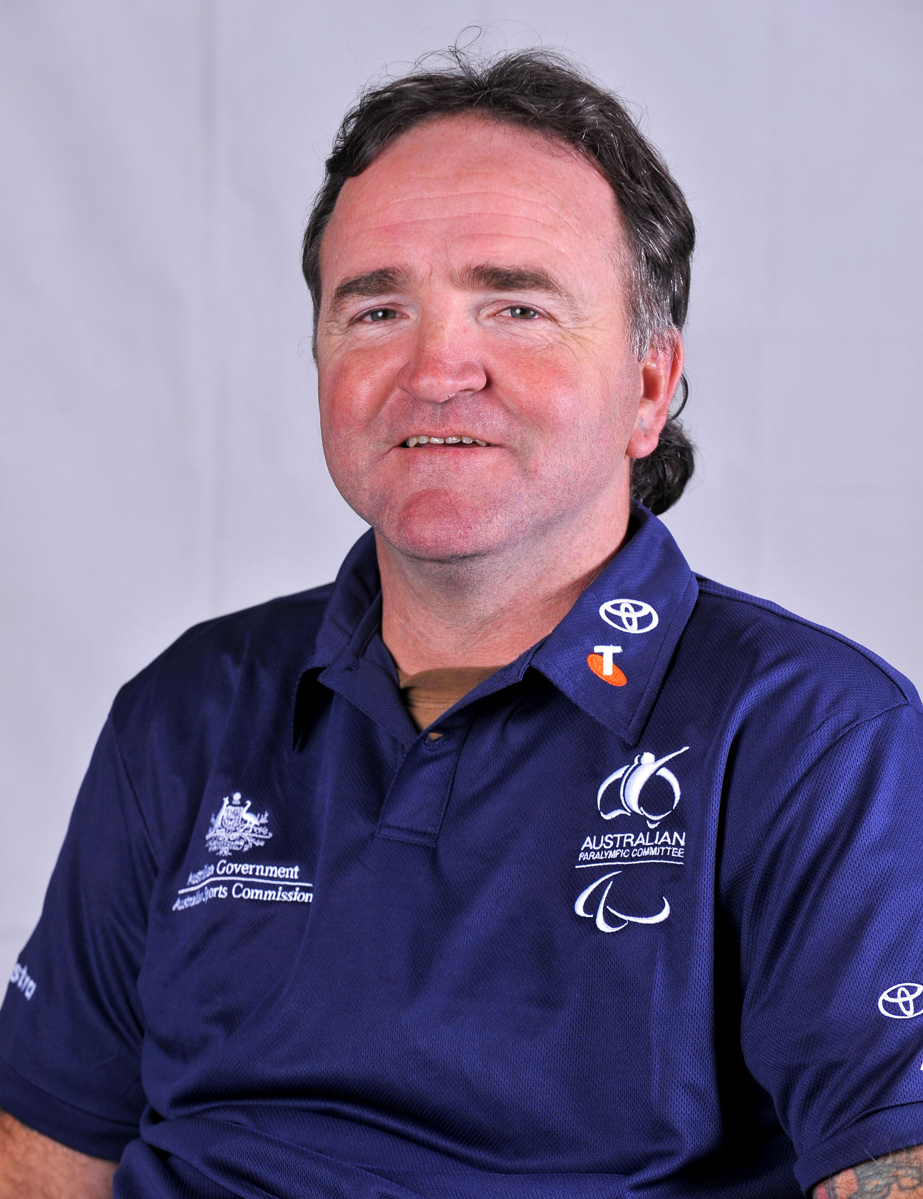 Portrait of Australian shooter Jason Maroney, 2012 Australian Paralympic (shadow) Team athlete